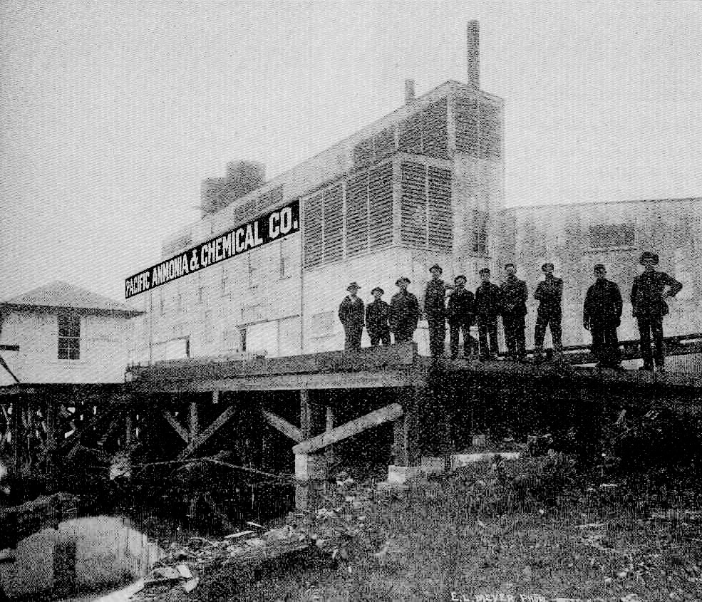 Fine New Plant of Pacific Ammonia and Chemical Co . Subject: Pacific Ammonia and Chemical Company (Seattle, Washington), Ammonia--Manufactures, Chemical plants--Seattle (Washington) Geographic Subject: United States--Washington (State)--Seattle Tag: Commercial Fisheries